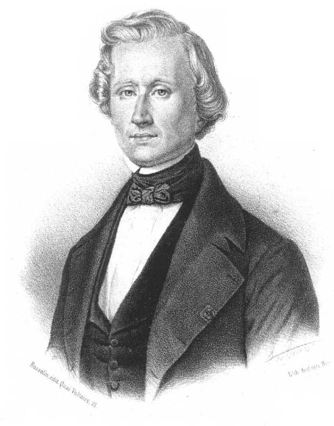 from [1]